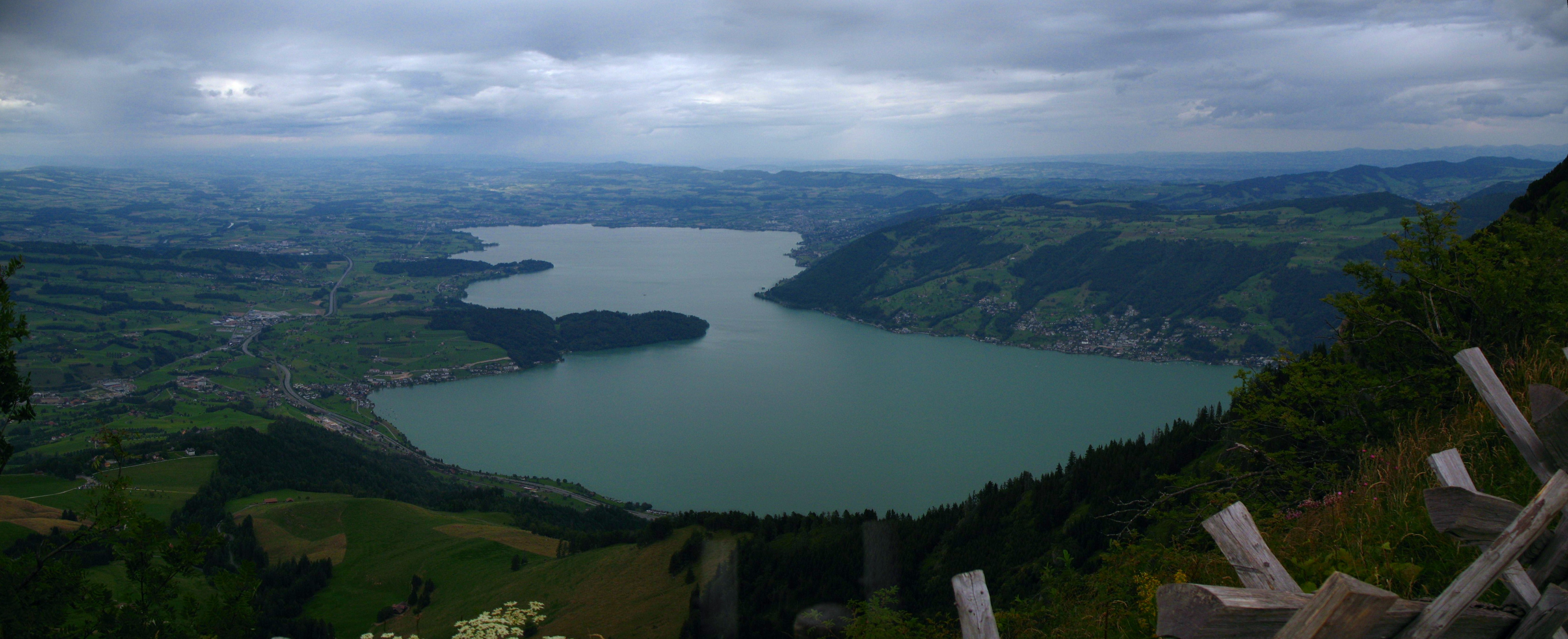 View toward Lake Zug, Rigi, Switzerland This panoramic image was created with Autostitch (stitched images may differ from reality). This is a retouched picture, which means that it has been digitally altered from its original version. Modifications: Adjusted hue and saturation.